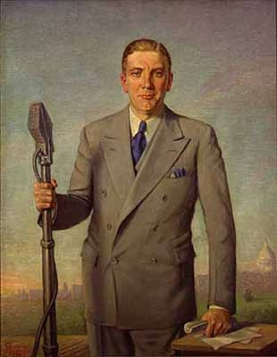 Painting of Governor Floyd B. Olson. Location no. AV1996.9.23 Negative no. 83118